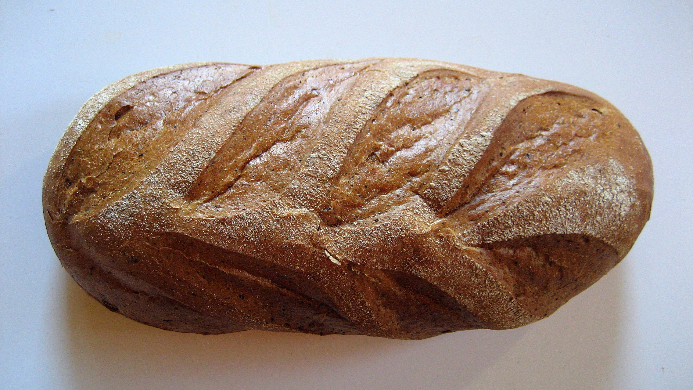 Rye bread